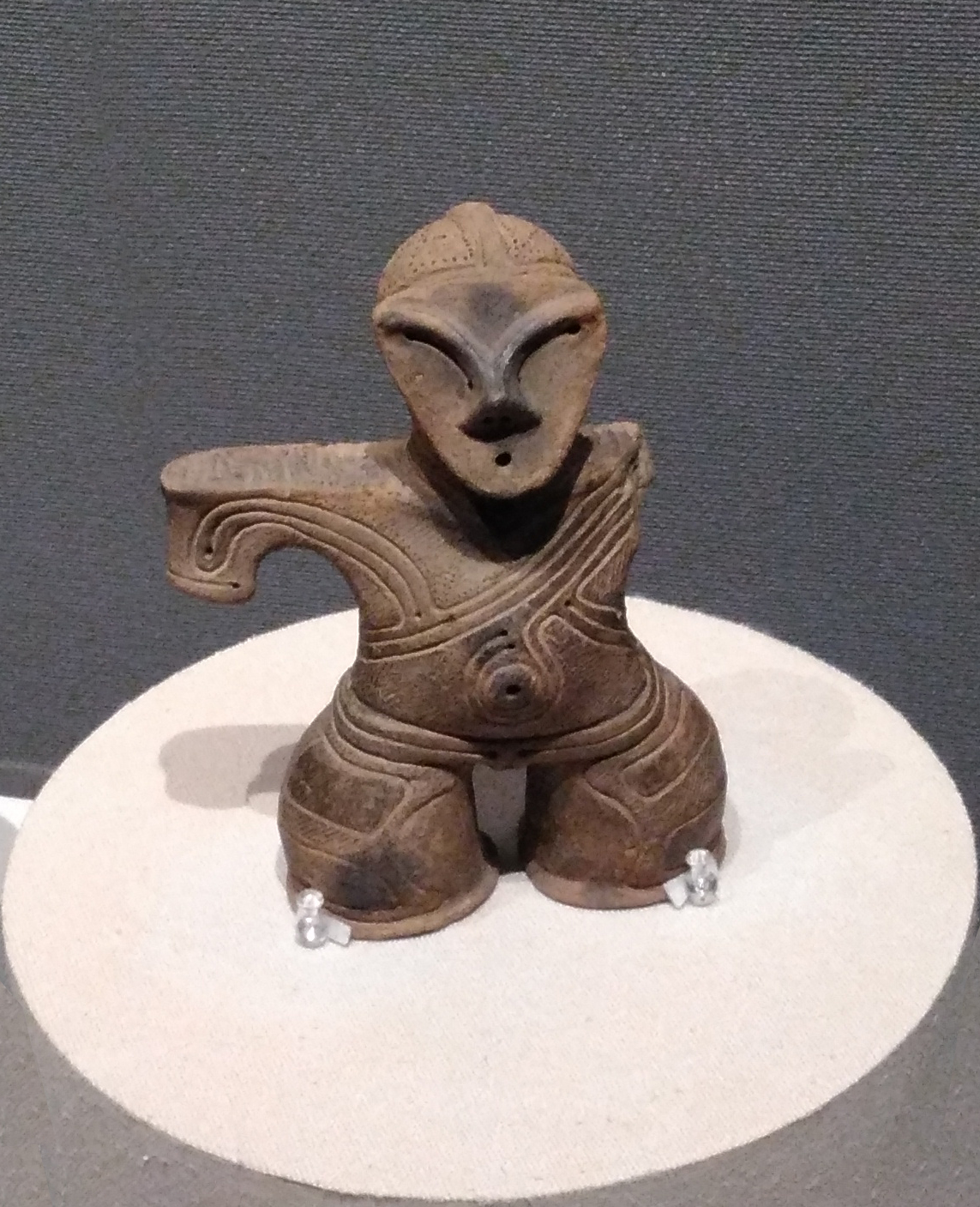 "Masked Dogu", Late Jomon period (2000-1000 BC), in the Mori-shogunzuka Museum, Chikuma (Nagano)